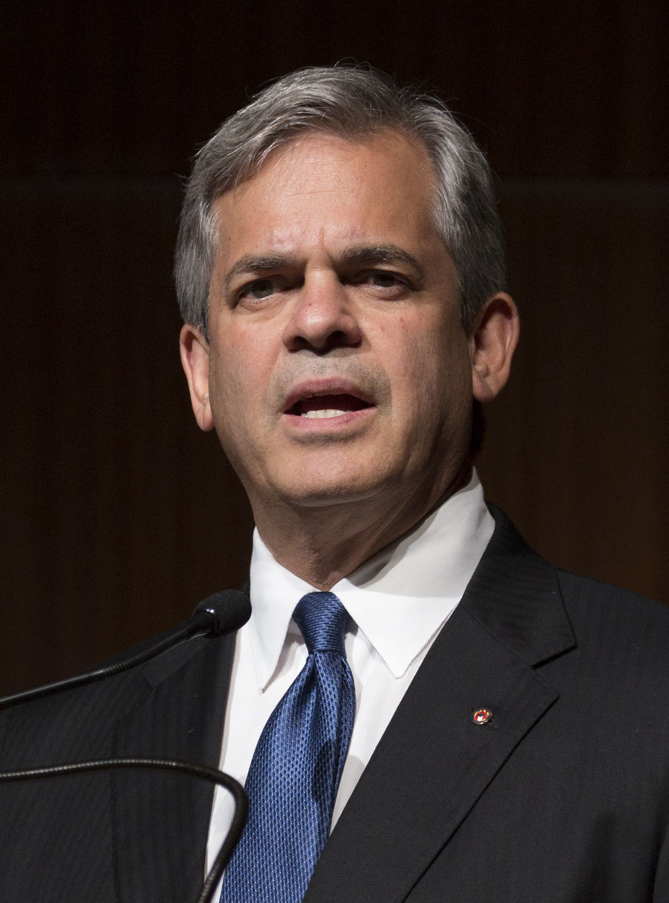 Austin Mayor Steve Adler delivers closing remarks on Tuesday, April 26, 2016, at the end of the first day's panel discussions held during the LBJ Presidential Library’s three-day Vietnam War Summit.